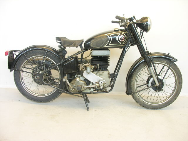 EMC British motorcycle 1950